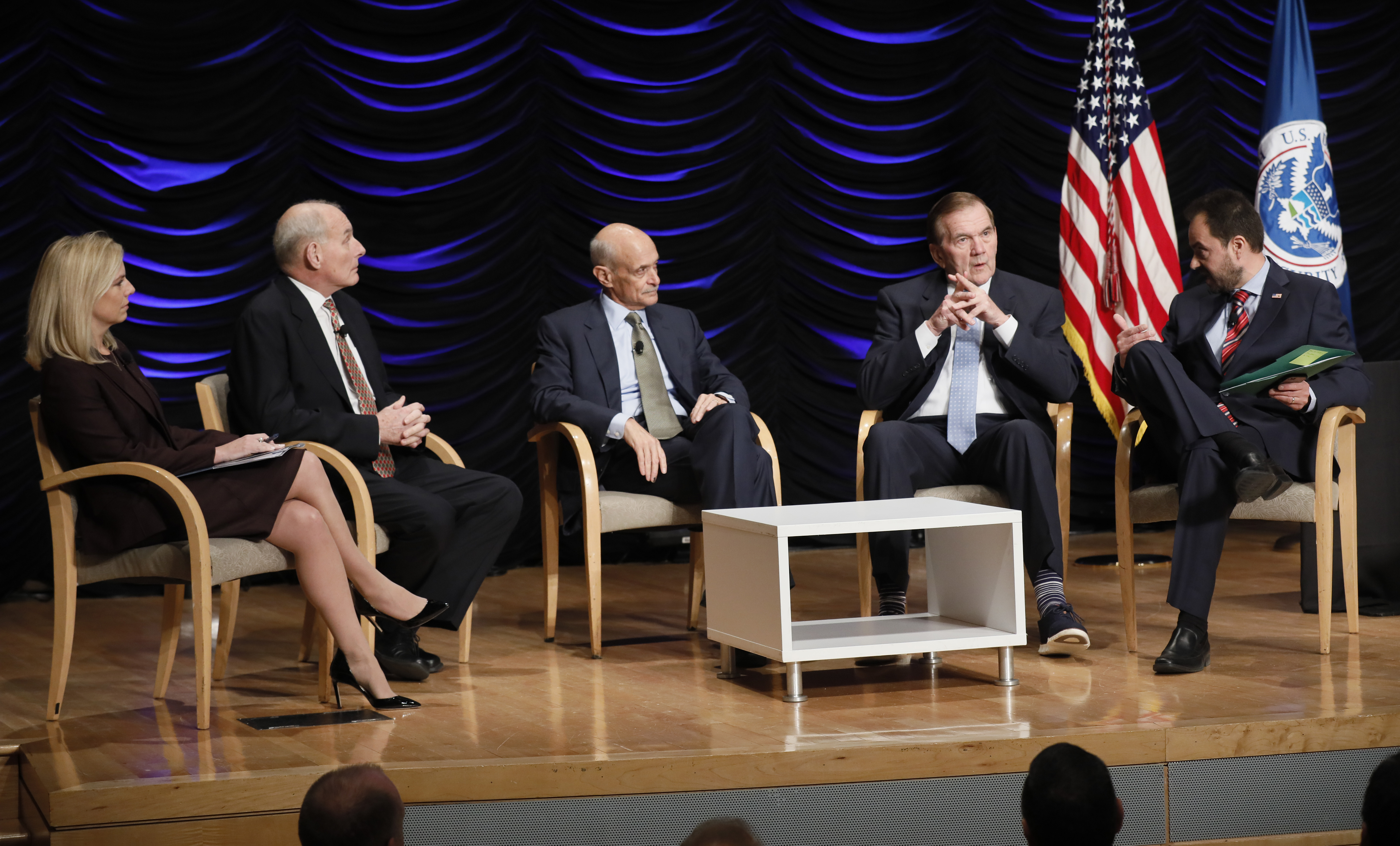 From left, Dept. of Homeland Security Secretary Kirstjen Nielsen, joins former DHS secretaries John Kelly, Michael Chertoff and Thomas Ridge for a panel discussion during the 15th anniversary celebration of DHS at the Ronald Reagan Building in Washington, D.C., March 1, 2018. Frank Cillufo of George Washington Univ. moderates, far right. U.S. Customs and Border Protection photo by Glenn Fawcett